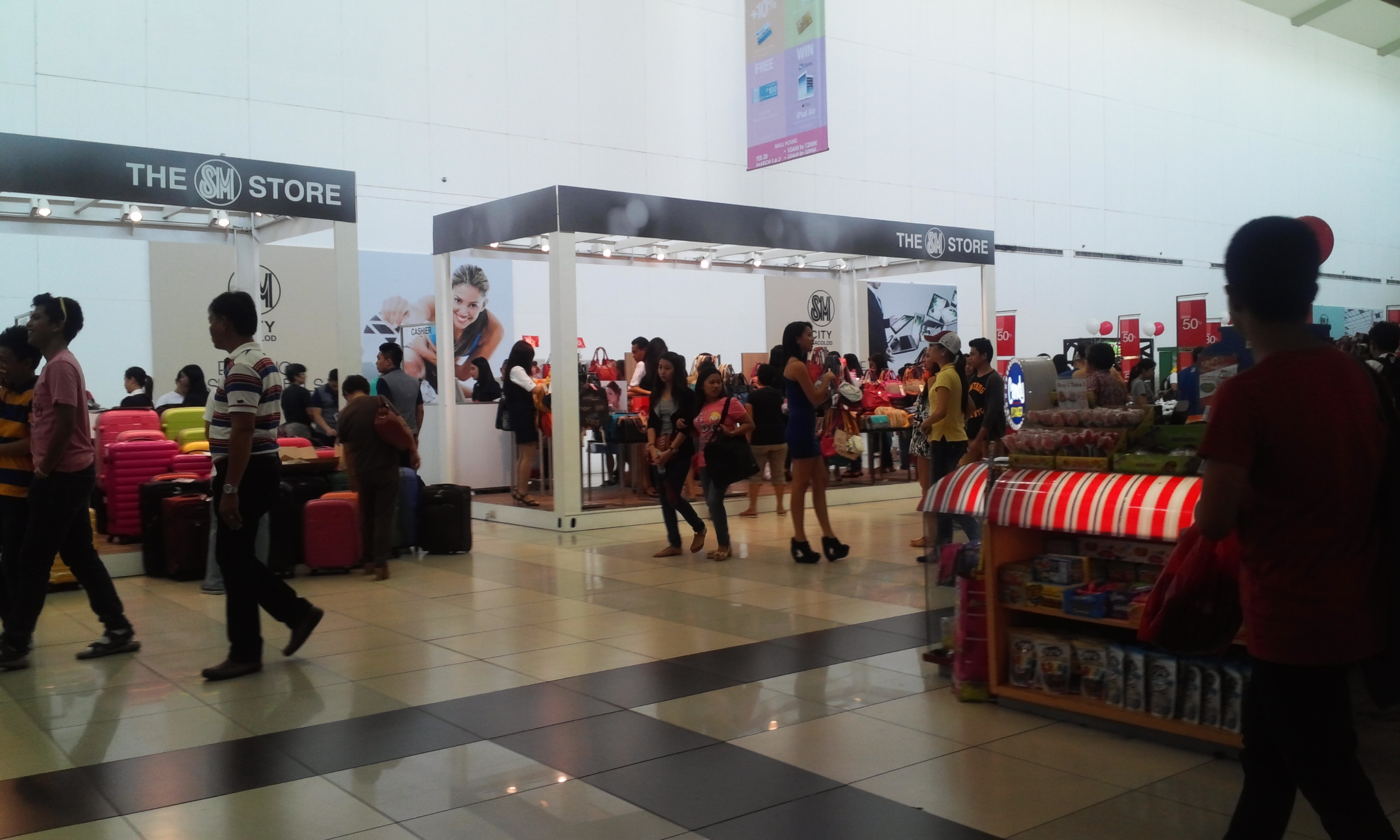 This is taken in SM mall, Bacolod, the Philippines.